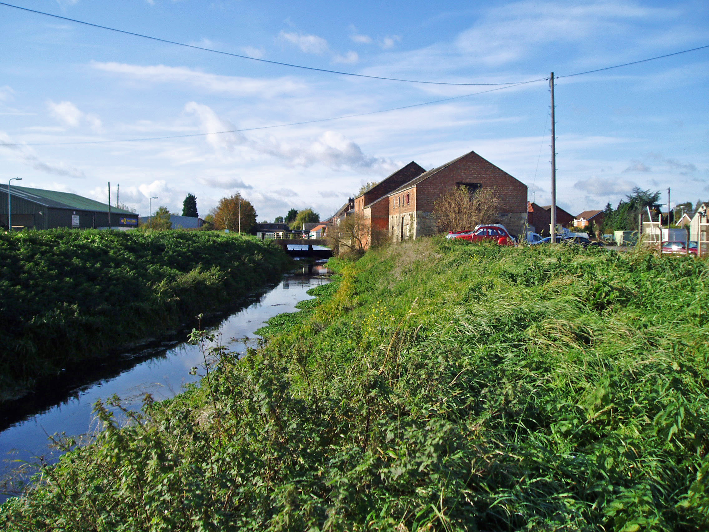 The location of the terminus of the Bourne Eau Navigation at Bourne, Lincolnshire